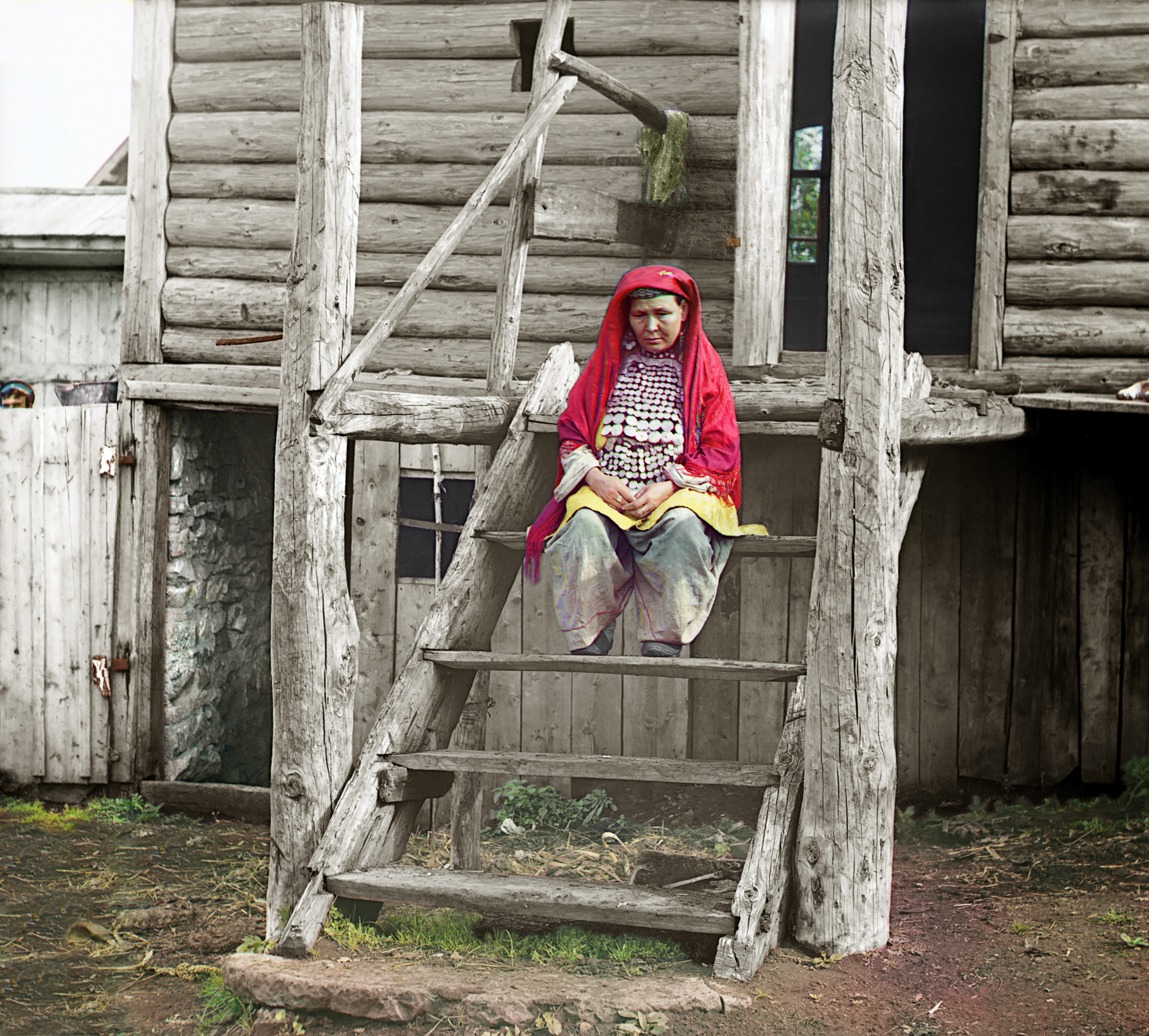 Original Description: Bashkir woman in a folk costume.